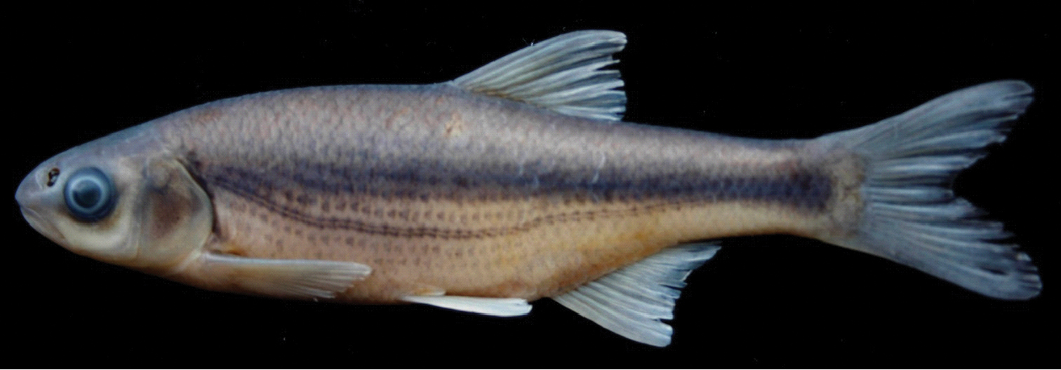 Alburnoides eichwaldii, Turkey: Ardahan Province: Hanak Stream, Kura River drainage, FFR 1047, female, 84 mm SL.